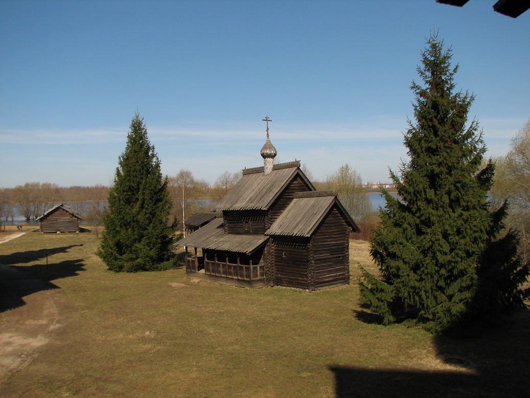 Wood buildings museum in Vitoslavlicy